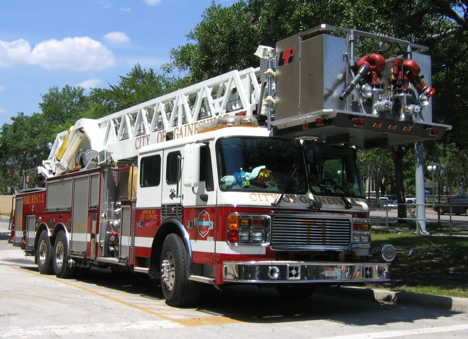 Gainesville City Fire Truck (Parked) Location: Gainesville, FL, USA Date: May 7, 2005 Specifications Tower 1, a American LaFrance Rear-Mount Tower vLadder apparatus on a Eagle (custom) Chassi belonging to the Gainesville, Florida Fire Department. The tower ladder also carries water and can serve as an engine (a so-called 'quint'). (Source: [1])